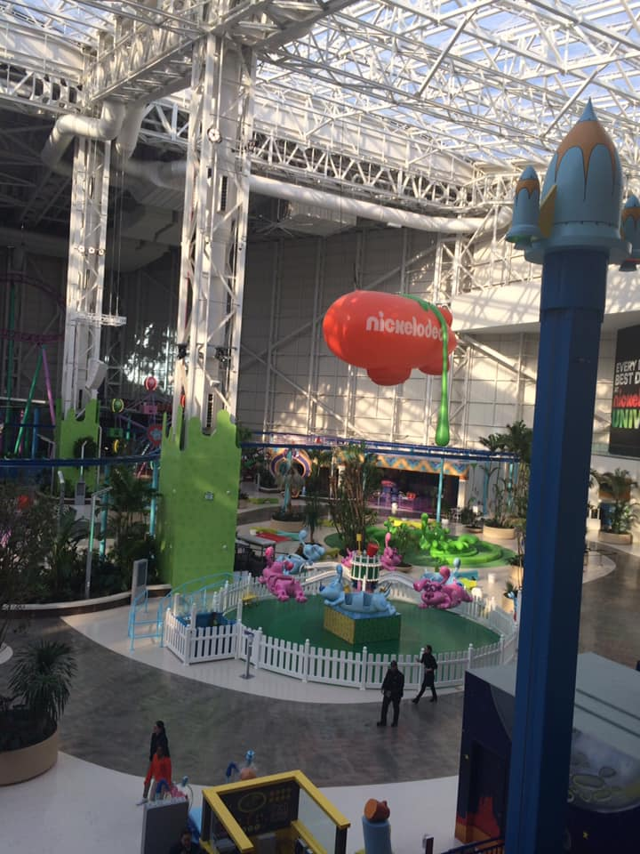 The Nickelodeon Universe Theme Park at American Dream Meadowlands